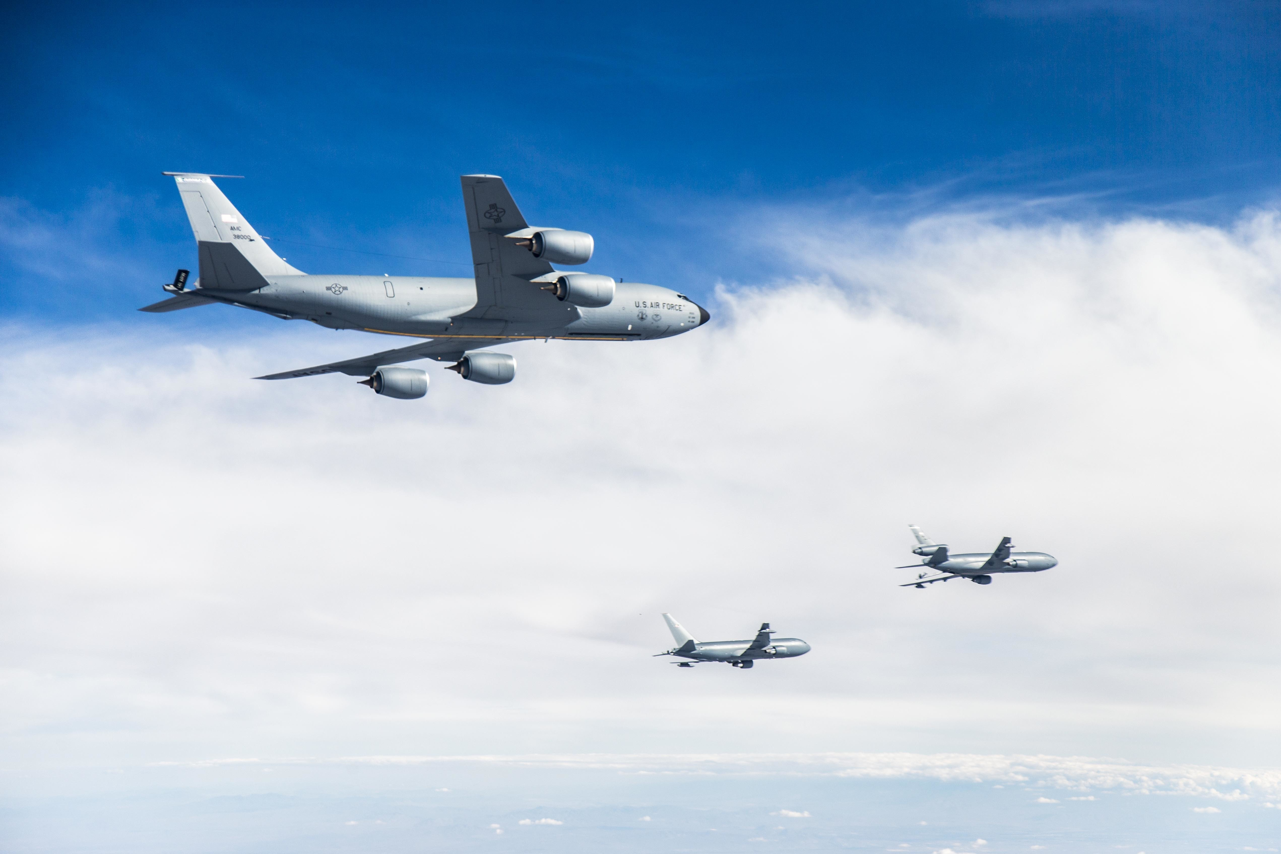 Photos of Boeing's KC-46A, center, conducting tests of aircraft acceleration and vibration exposure while flying in receiver formation at various speeds and altitudes behind either the KC-10 Extender or the KC-135 Stratotanker. Testing for this phase was coordinated from Edwards Air Force Base, Calif., and conducted above Owens Valley and parts of the western Mojave Desert. Unit: 92d Air Refueling Wing